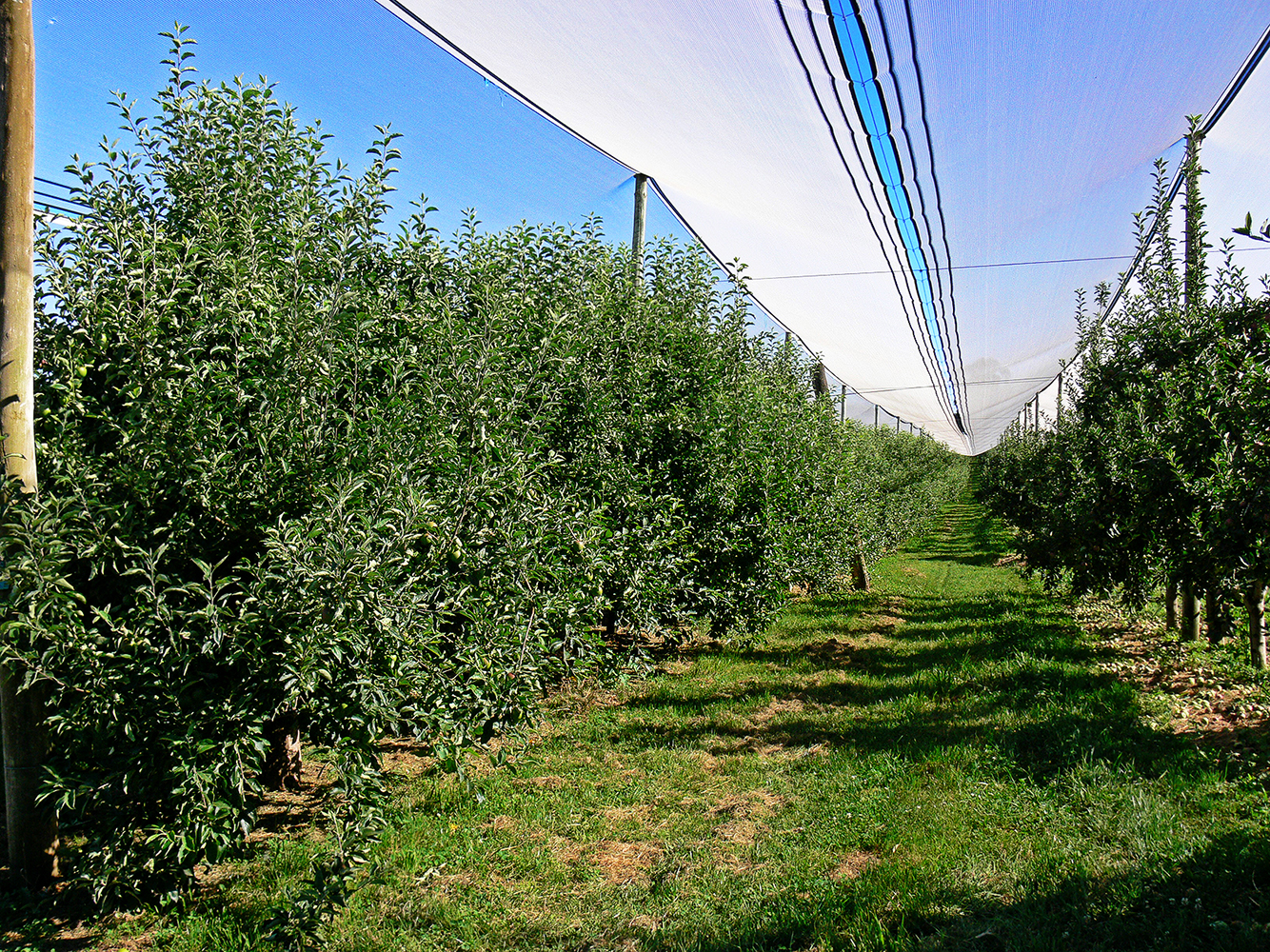 Red delicious apple trees under hail nets in an orchard